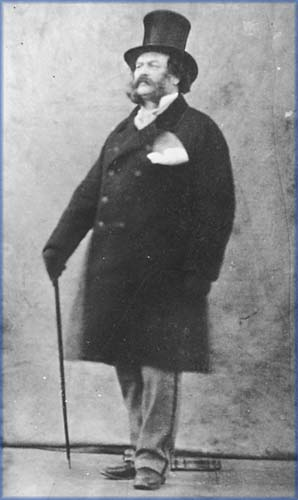 Moses Perley (1804-1862), lawyer, businessman, fisheries and immigration officer, commissioner of Indian affairs, writer, lecturer and naturalist from New Brunswick.